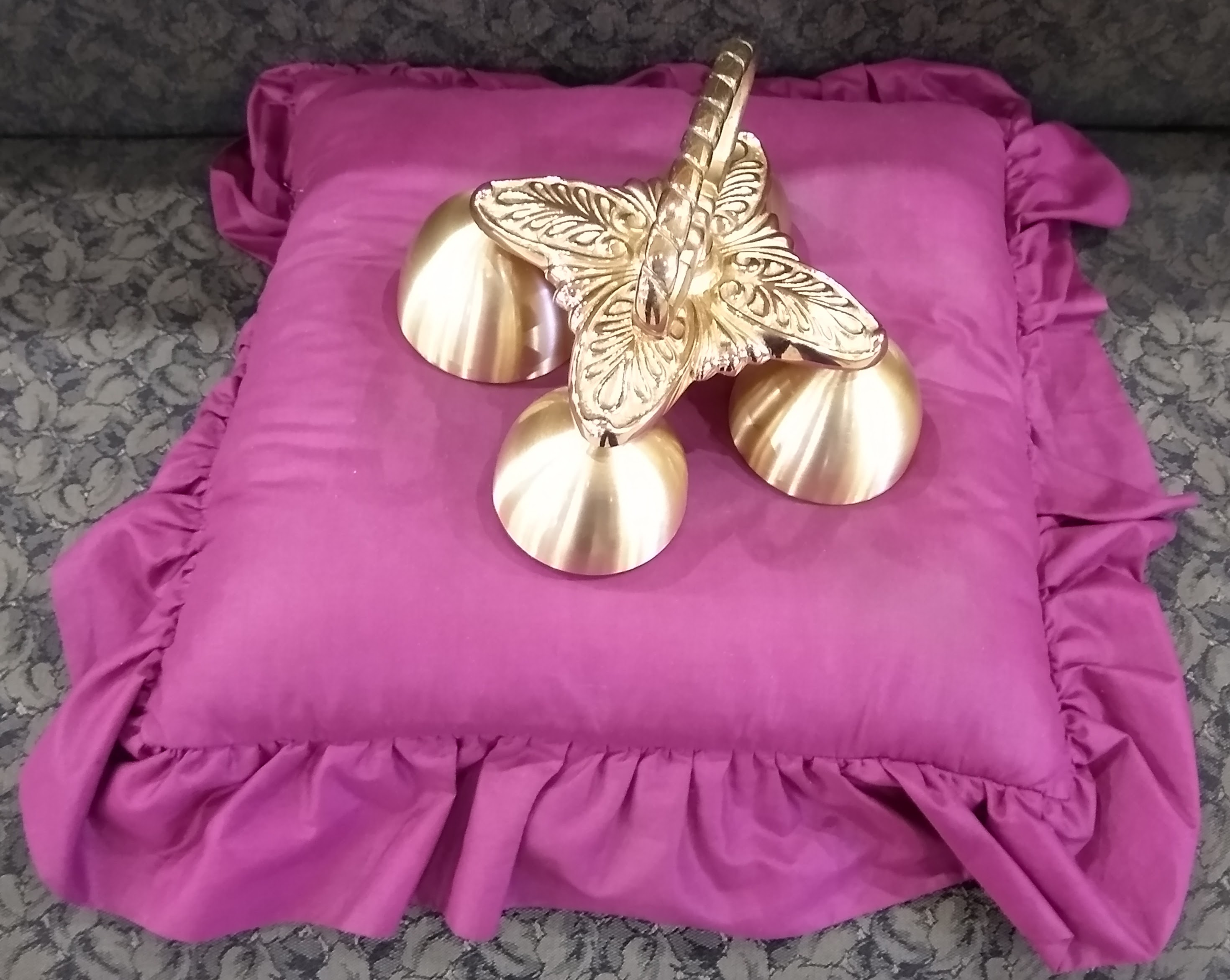 An altar bell, otherwise known as a Mass bell, sacring bell, Sacryn bell, saints' bell, sance-bell, or sanctus bell, on a lavender pillow.